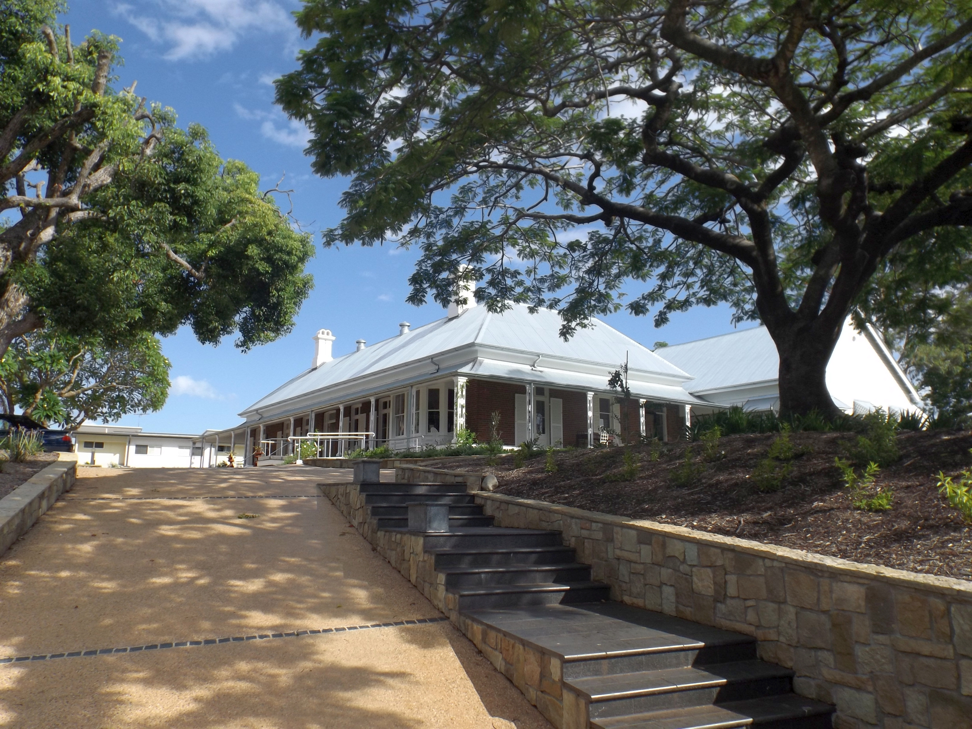 Photo of driveway to Hanworth Home of the Aged at East Brisbane, Brisbane, Queensland, Australia.